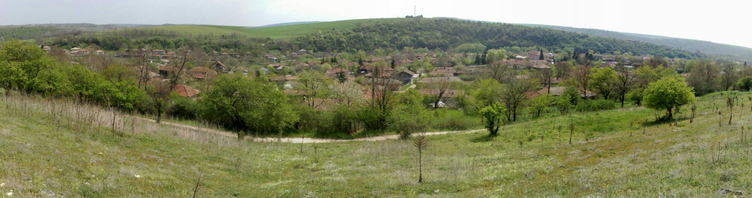 Panorama photo of Krivnya